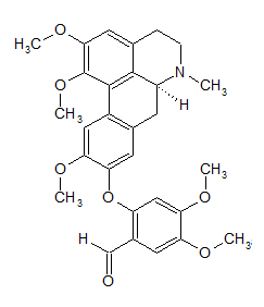 Molecular formule